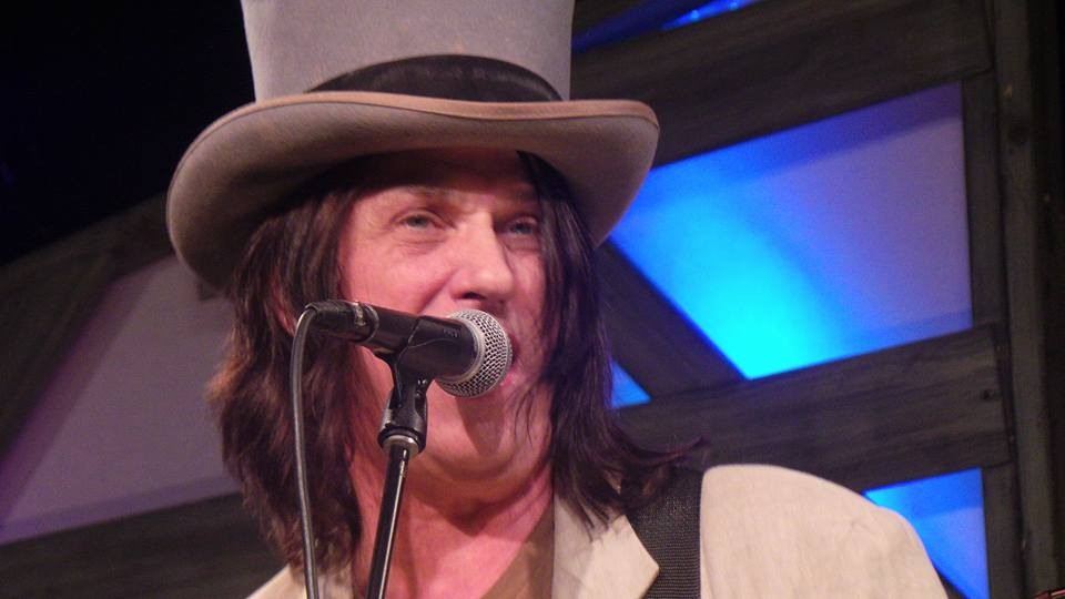 Dan Baird performs at Music City Roots in Franklin, Tennessee in 2015